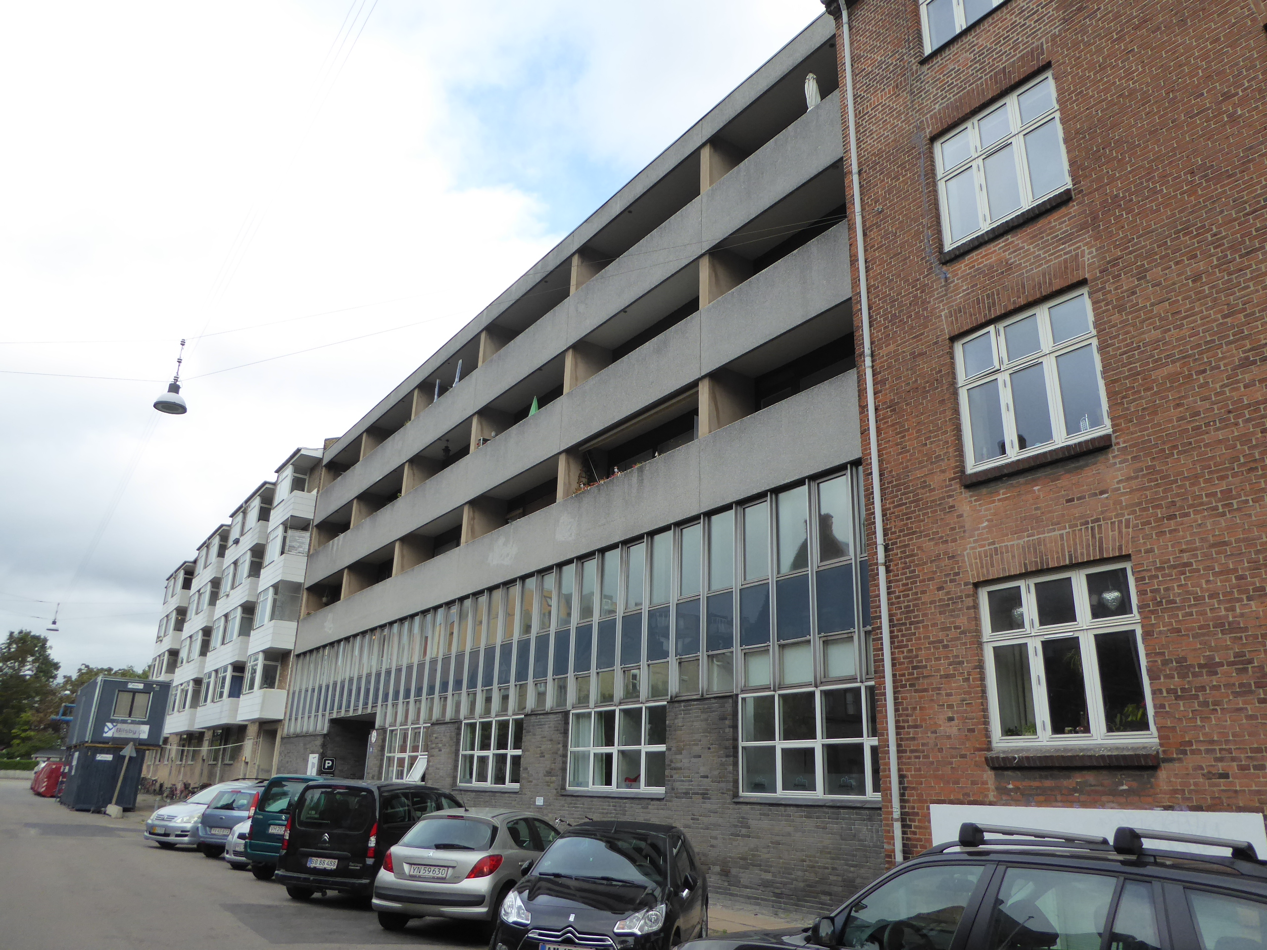 Building at Hornemansgade in Østerbro in Copenhagen.